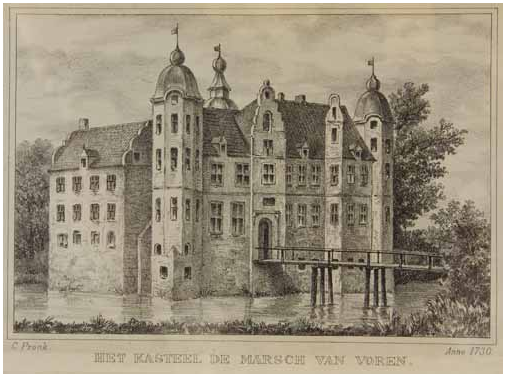 Castle "De Marsch" at Zutphen (Netherlands)